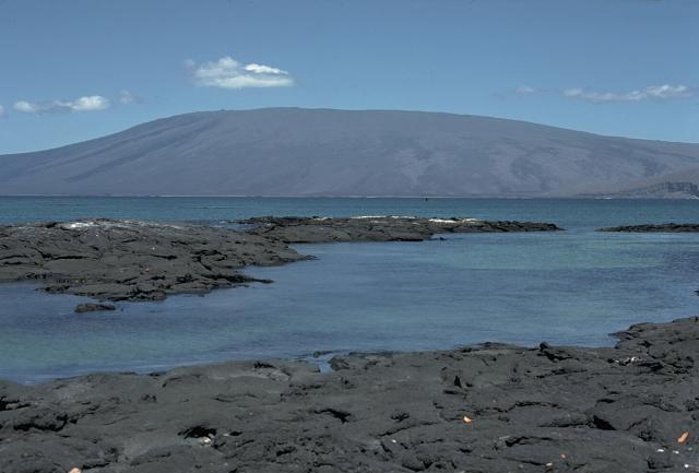 Volcán Darwin, named after the celebrated naturalist, rises above a narrow channel opposite Point Espinosa on the NE tip of Fernandina Island. Darwin volcano contains a symmetrical 5-km-wide summit caldera that is nearly filled by lava flows. The most recent summit activity produced several small lava flows from vents on the east caldera floor and NE and SE caldera rims. Two breached tuff cones on the SW-flank coast, Tagus and Beagle, were a prominent part of Darwin's geological studies in the Galápagos Islands.